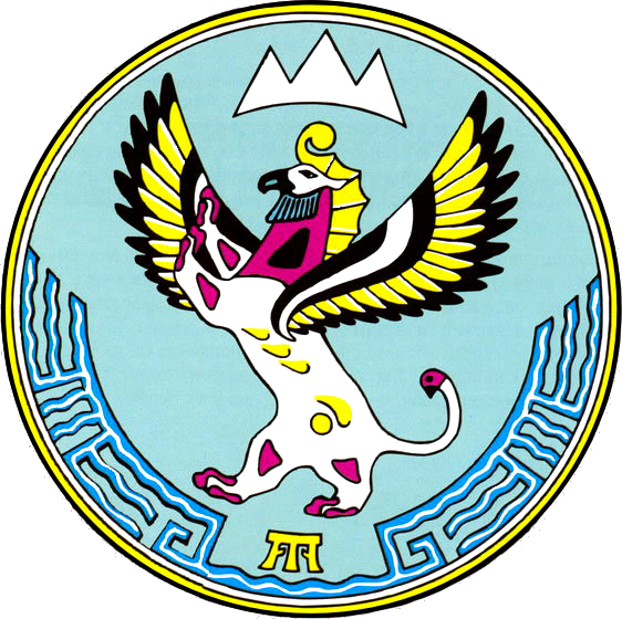 Coat of arms of Altai Republic.